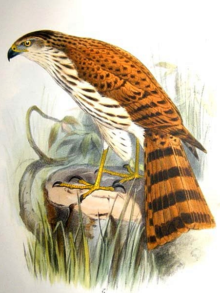 1. (above) Accipiter rhodogaster